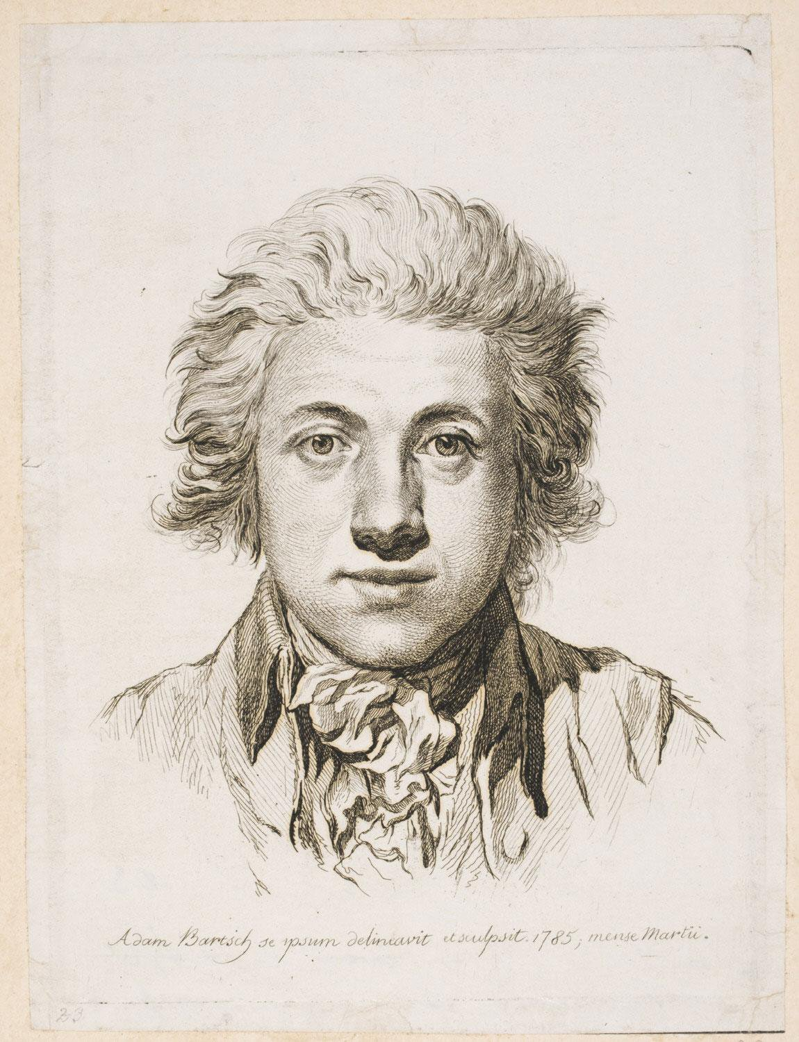 Adam von Bartsch (1757 - 1821) - self-portrait etching and engraving on paper 16.7 x 12.6 cm inscribed Adam Bartsch se ipsum delineavit et sculpsit 1785, mense Martii